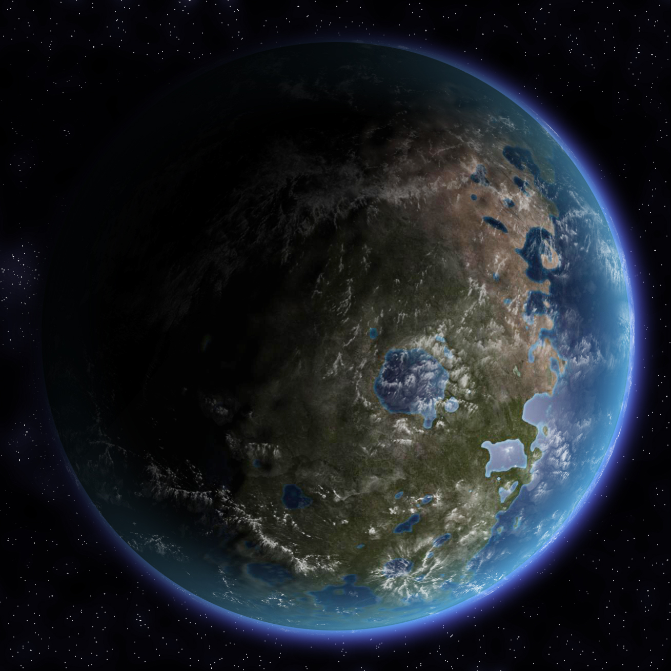 A concept image I made depicting what the moon might look like if it were terraformed. (Credit: Daein Ballard)